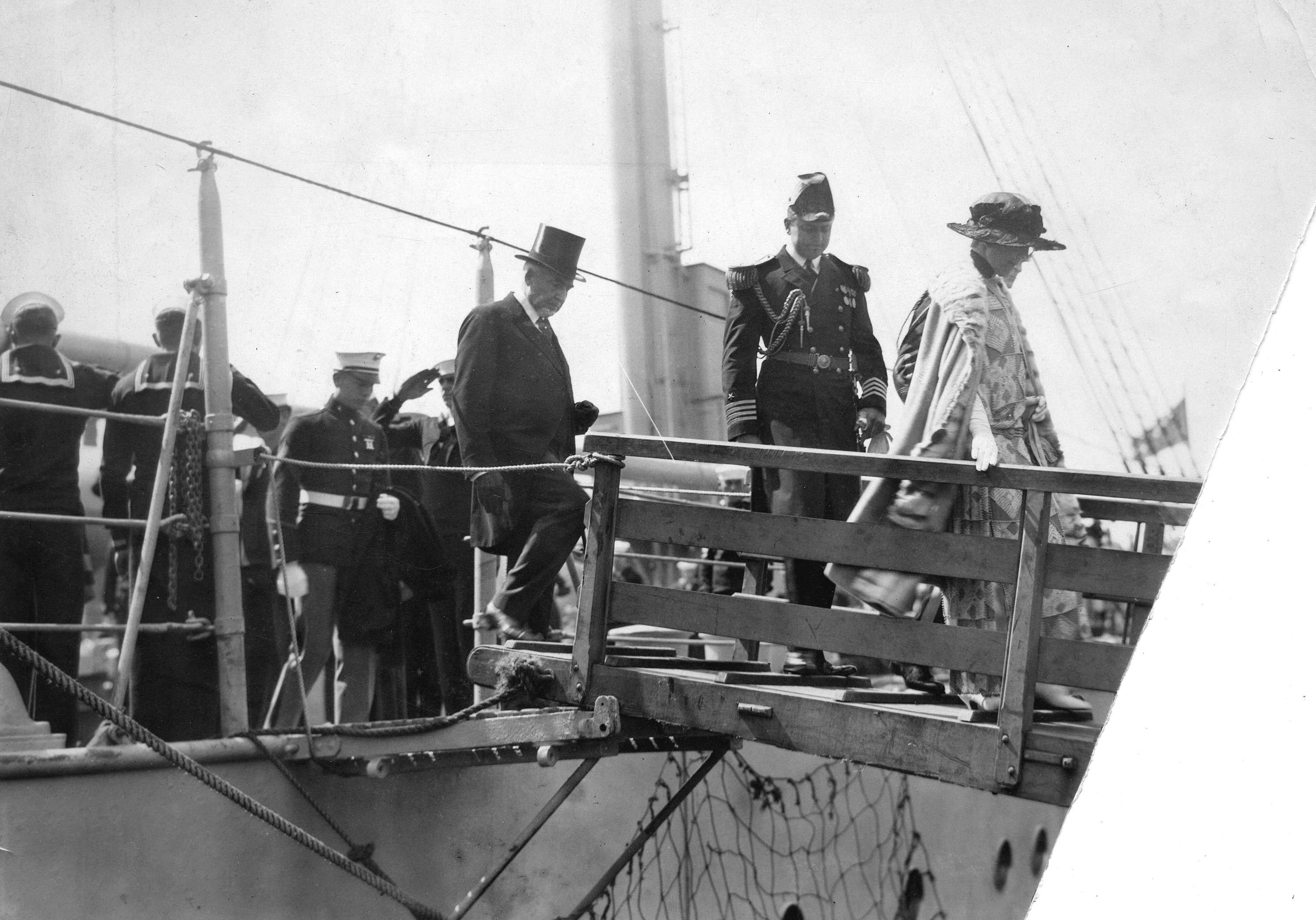 President and Mrs. Harding disembark from U.S.S. "Henderson" at Vancouver.